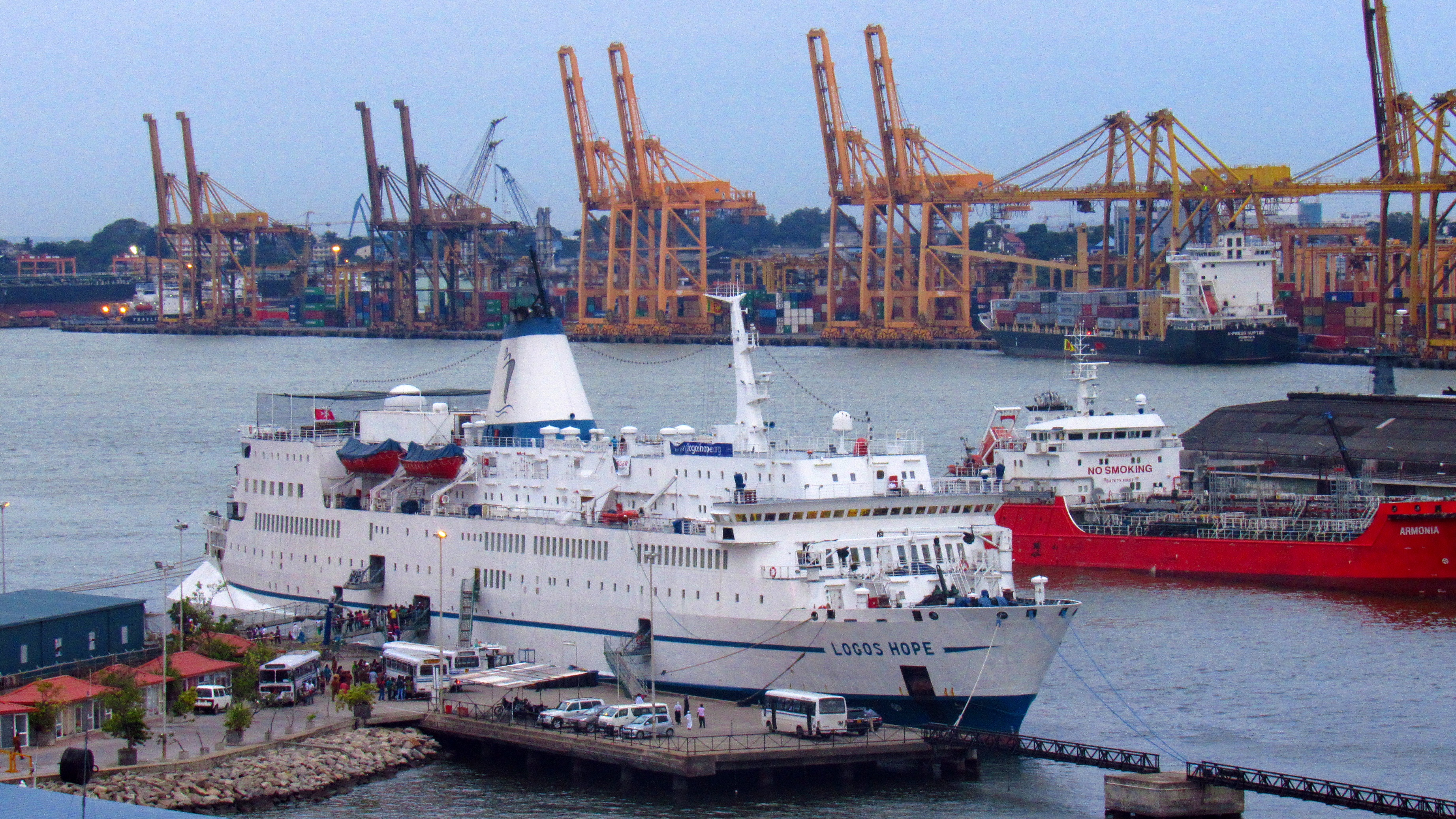 MV Logos Hope at Colombo Harbour in November 2015.